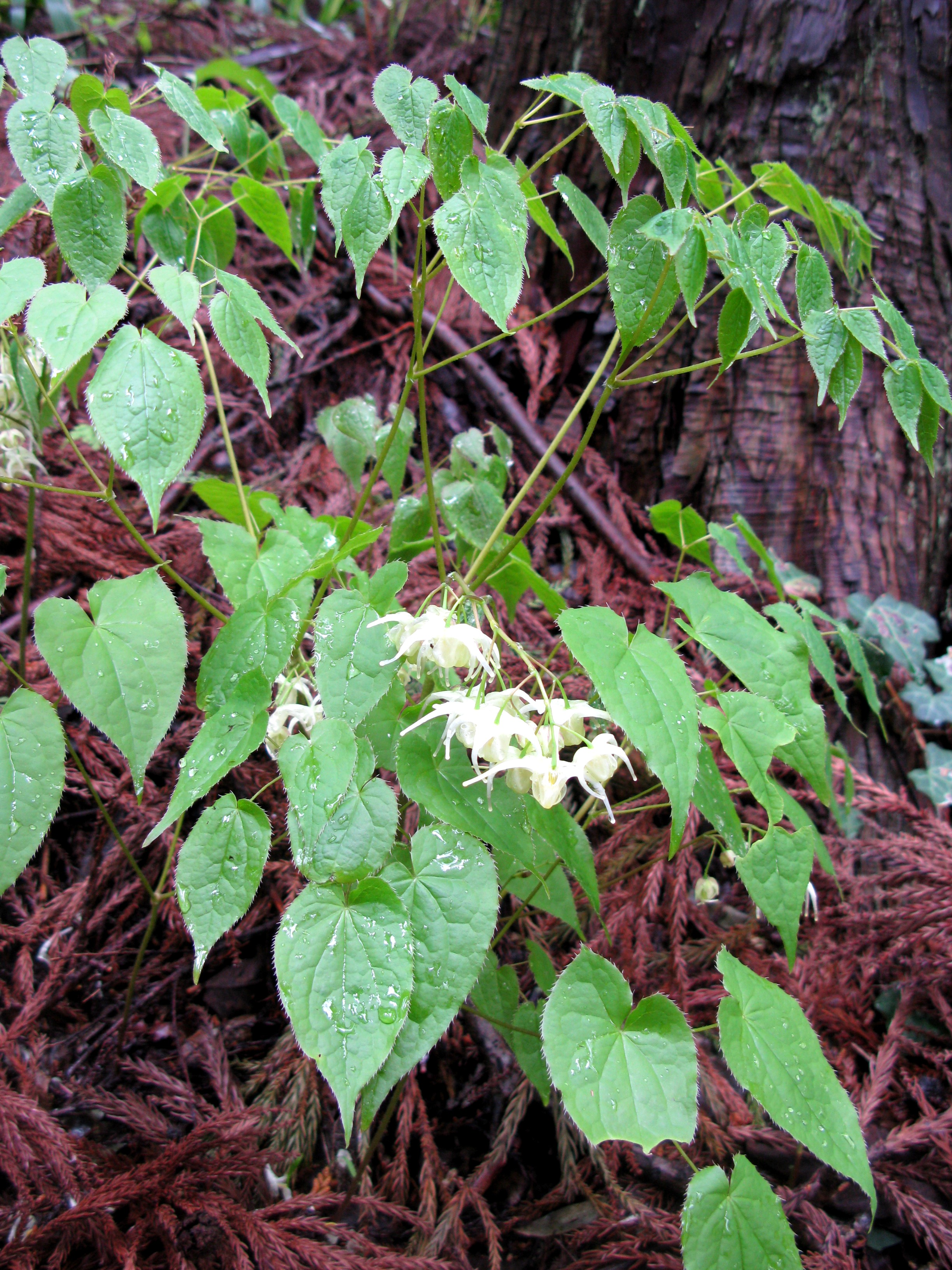 Epimedium koreanum,Aizu area,Fukushima pref.,Japan